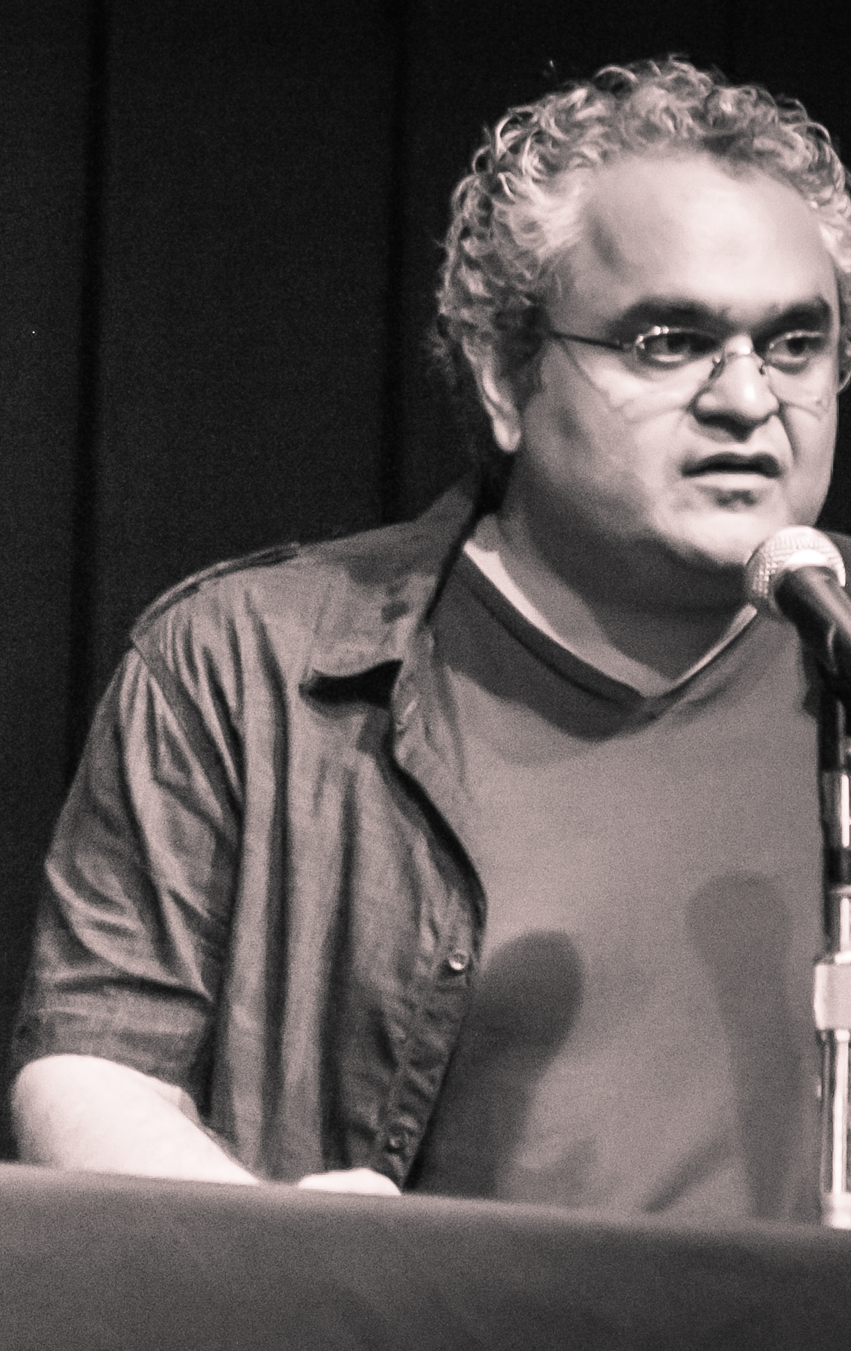 Correlations of Visual Arts & Cinema (Tirgan Festival 2013)